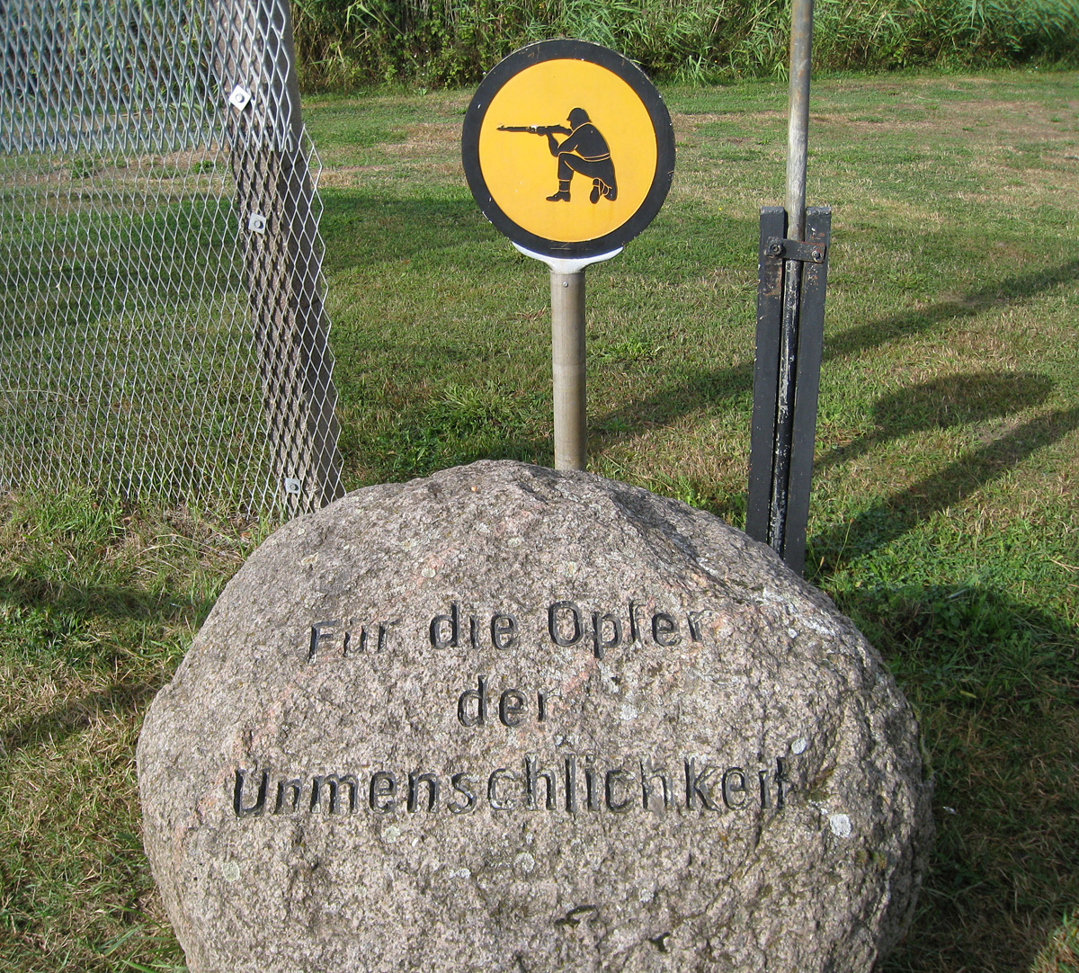 Memorial at Rüterberg, Mecklenburg-Vorpommern. "For the victims of inhumanity."